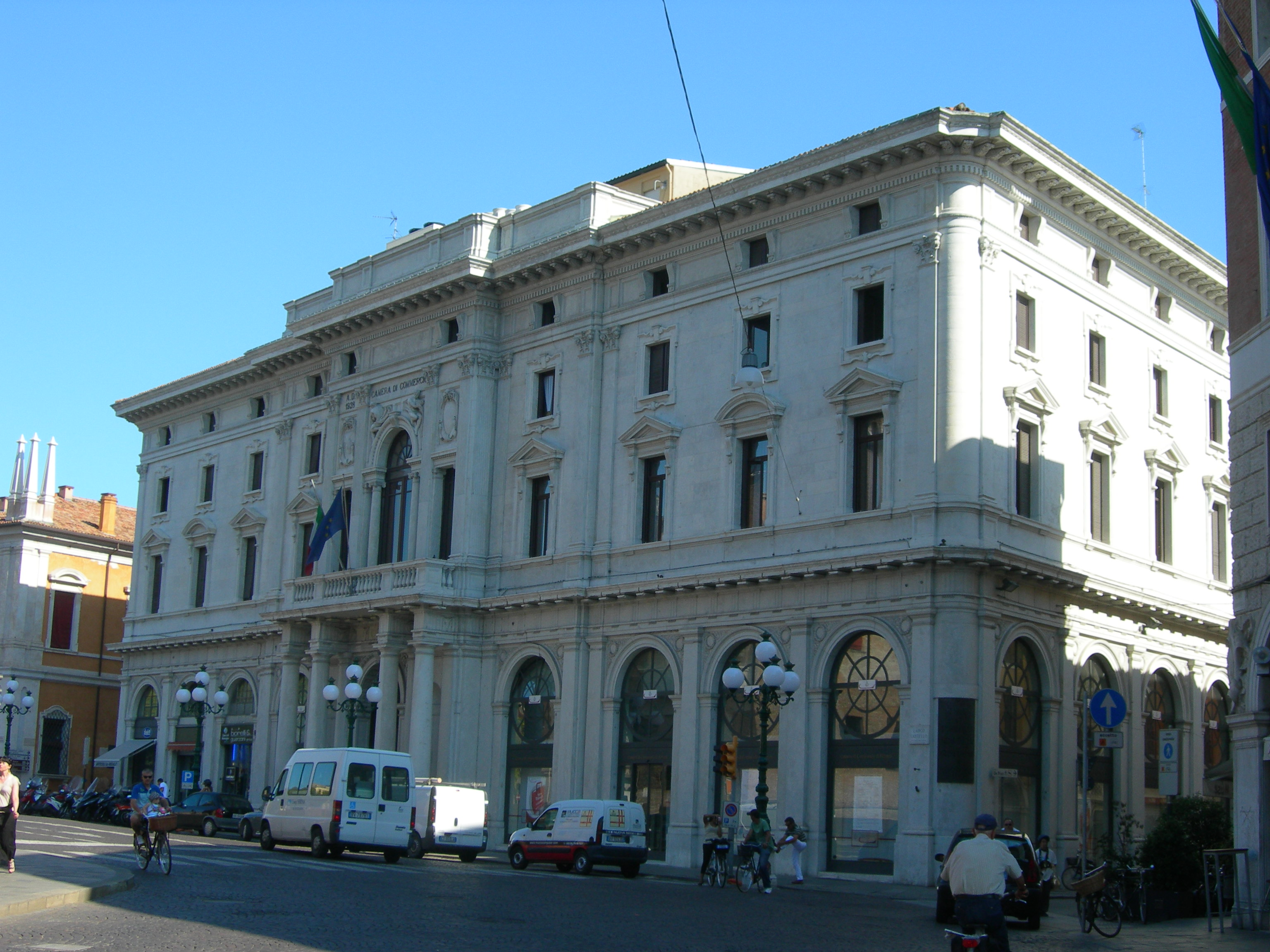 Chamber of Commerce of Ferrara